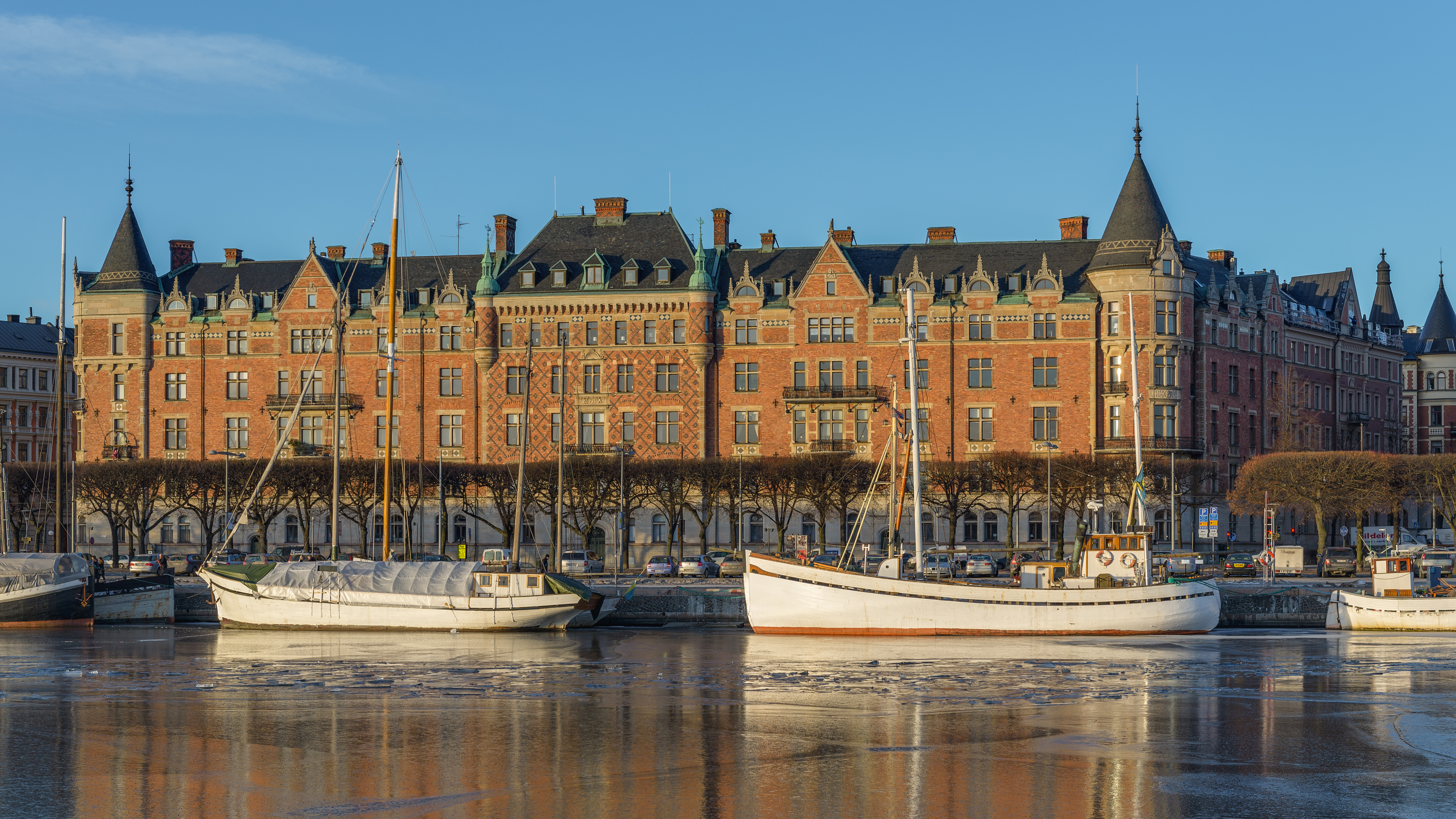 Bünsowska huset (the Bünsow building), Strandvägen 29-33, Stockholm. Built 1886-1888. Architect: Isak Gustaf Clason. The building broke new ground in its use of natural material throughout (limestone and bricks) rather than the plaster that had been dominant in Swedish architecture until that point. It also broke against conventions through its avoidance of complete symmetry. Exposure fusion from a single exposure.